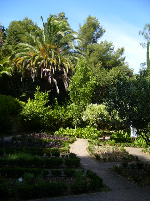 View of Parc du Mugel, La Ciotat, France